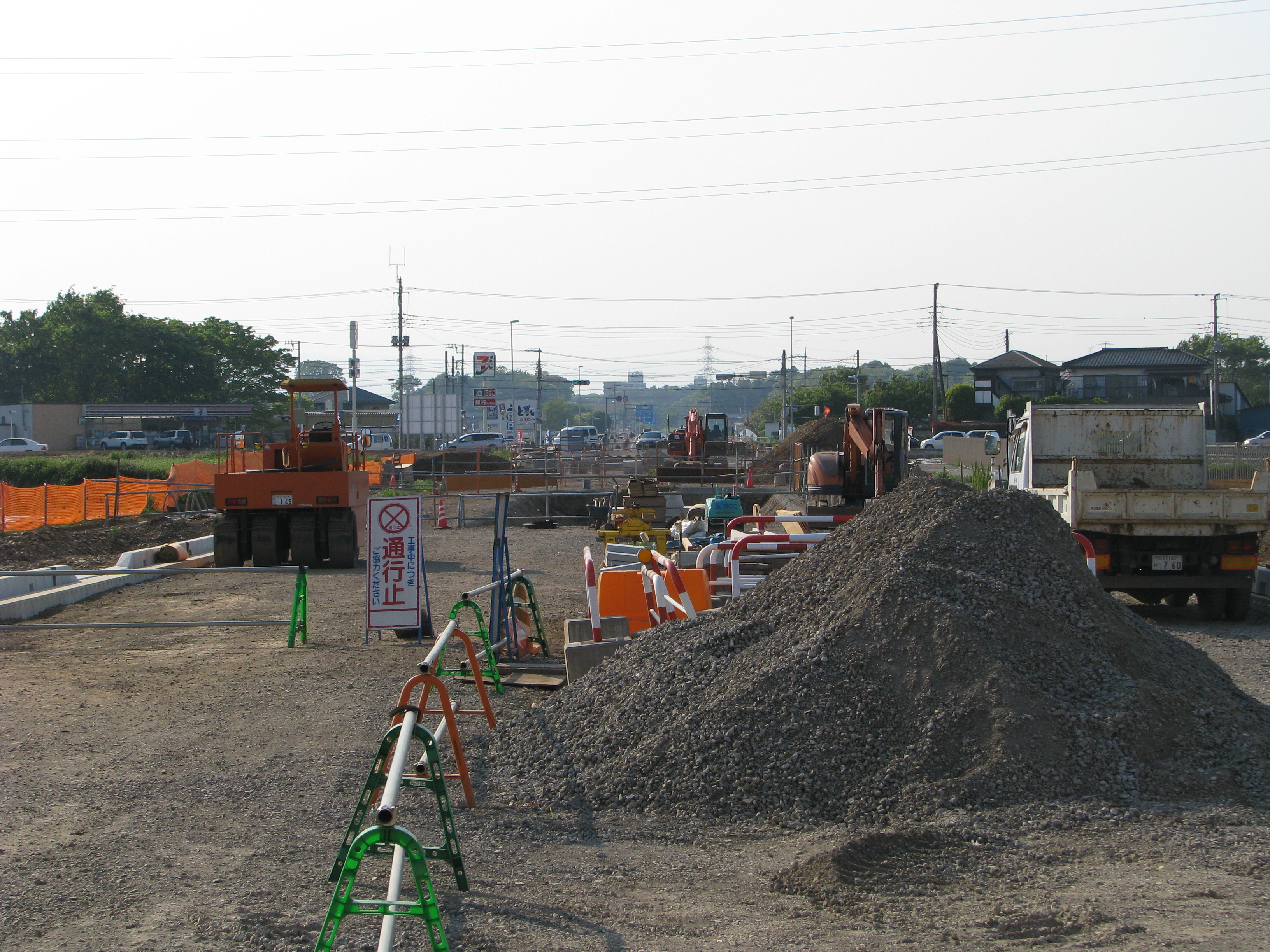 The Saitama Prefectural Road Route 126 in Horigane, Sayama City